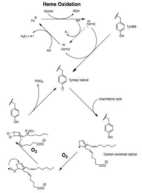 Generation of PGG2 by COX2